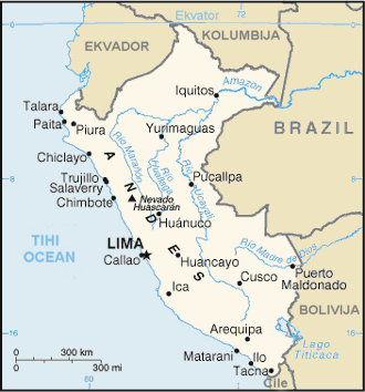 CIA Ecuador map, Croatian translation